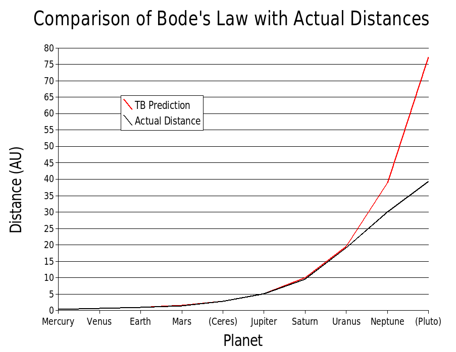 Plot made with MS Excel. No TB-rule prediction for Neptune, because it violates the Titius-Bode law.